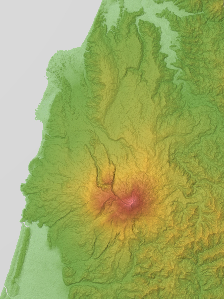 Mount Chokai is a volcano in the border between Yamagata and Akita Prefectures, Honshu, Japan.